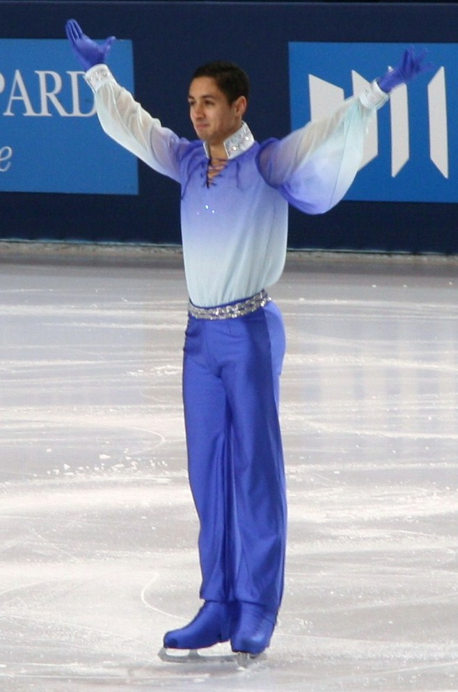 Chafik Besseghier at the 2010 Trophée Eric Bompard, SP